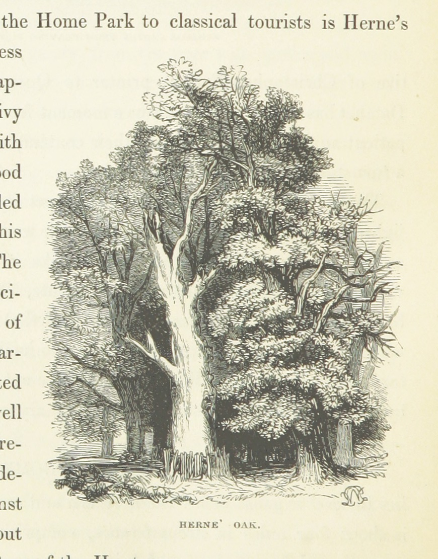 Image taken from: Title: "A Picturesque Tour of the River Thames in its Western Course; including particular descriptions of Richmond, Windsor, and Hampton Court, etc. [With plates.]" Author: MURRAY, John Fisher. Shelfmark: "British Library HMNTS 10351.dd.37." Page: 338 Place of Publishing: London Date of Publishing: 1862 Publisher: H. G. Bohn Issuance: monographic Identifier: 002591207 Explore: Find this item in the British Library catalogue, 'Explore'. Open the page in the British Library's itemViewer (page image 338) Download the PDF for this book Image found on book scan 338 (NB not a pagenumber)Download the OCR-derived text for this volume: (plain text) or (json) Click here to see all the illustrations in this book and click here to browse other illustrations published in books in the same year. Order a higher quality version from here.